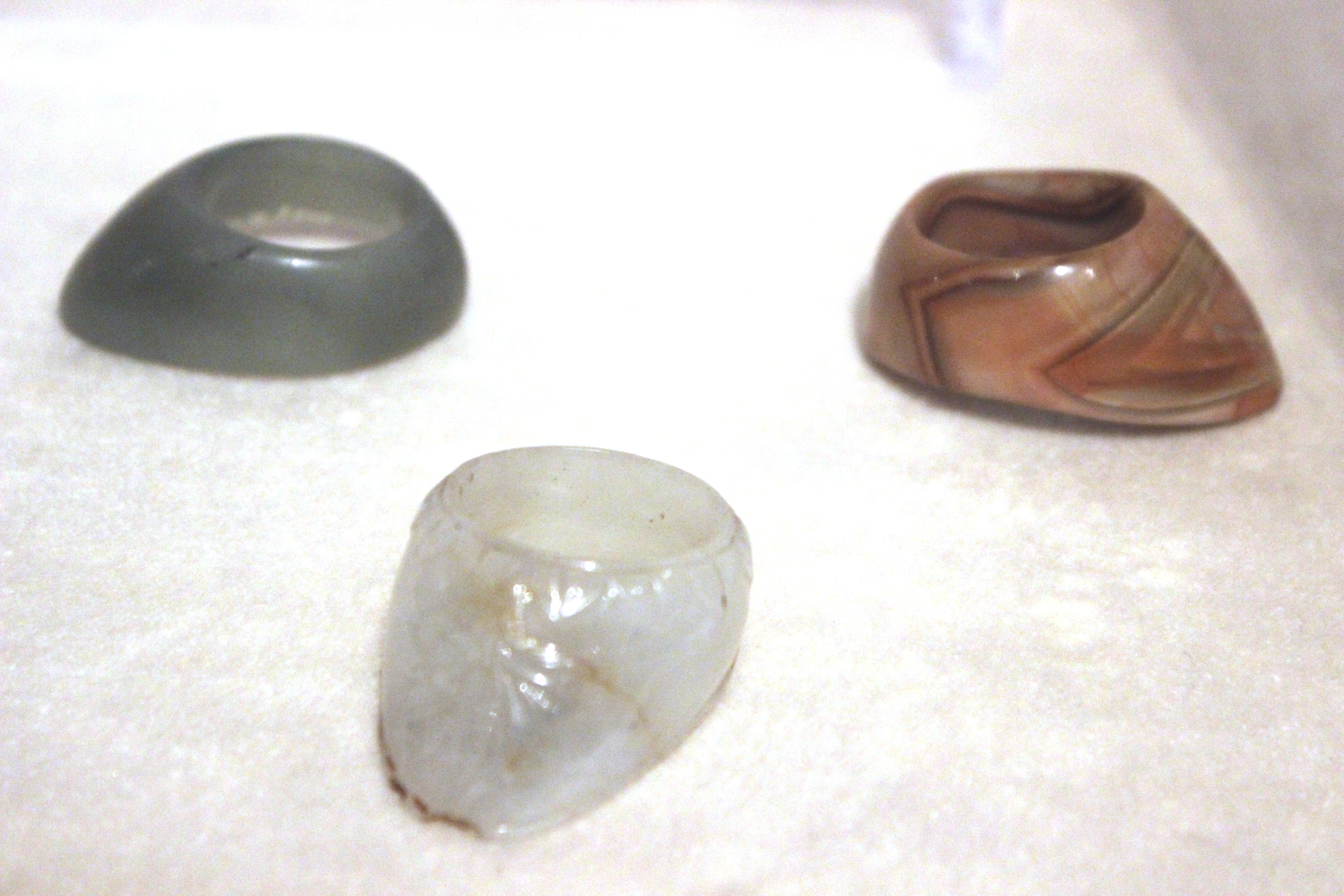 Jade archers ring in the decorative arts gallery, national museum, India